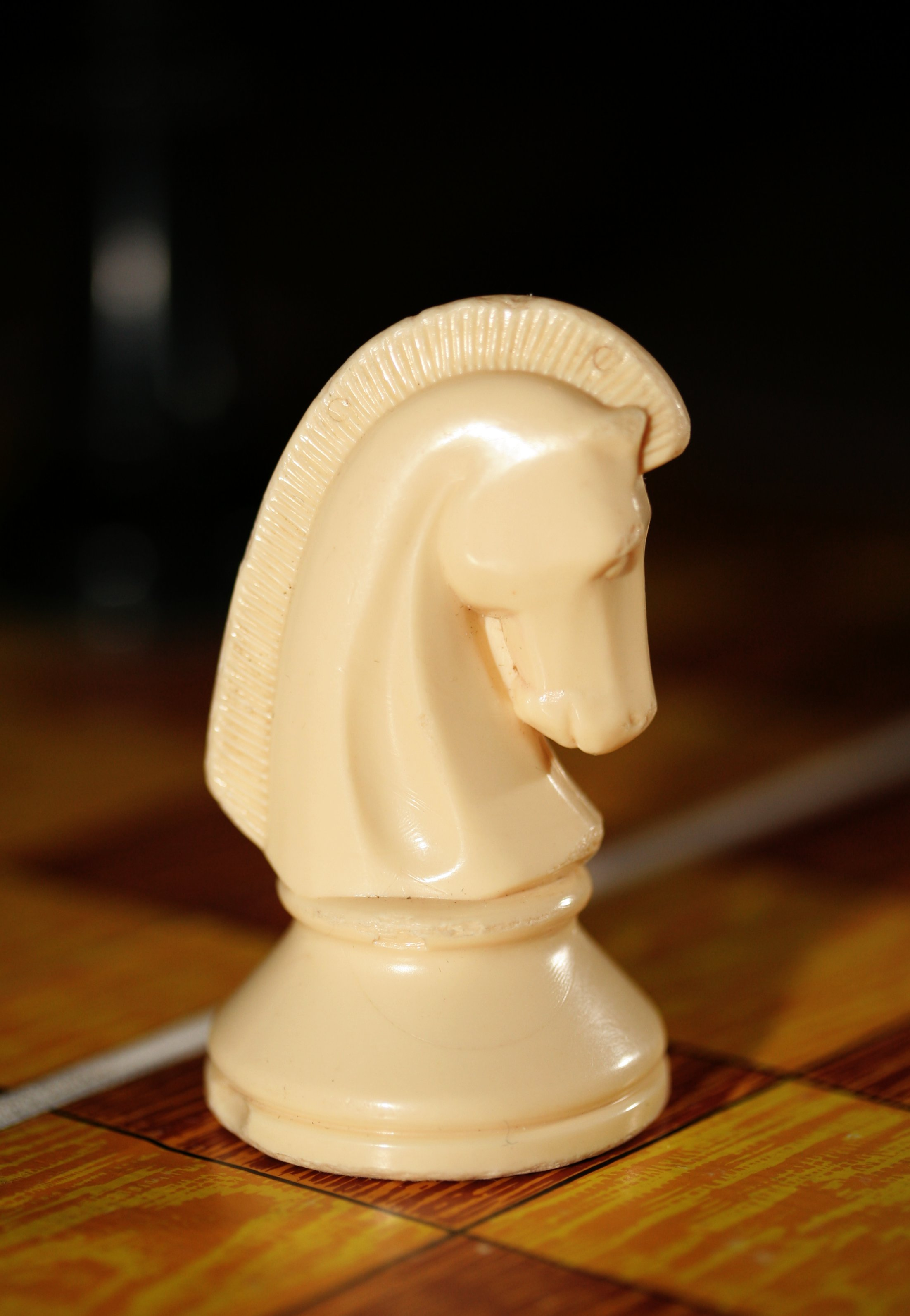 Chess knight 0971